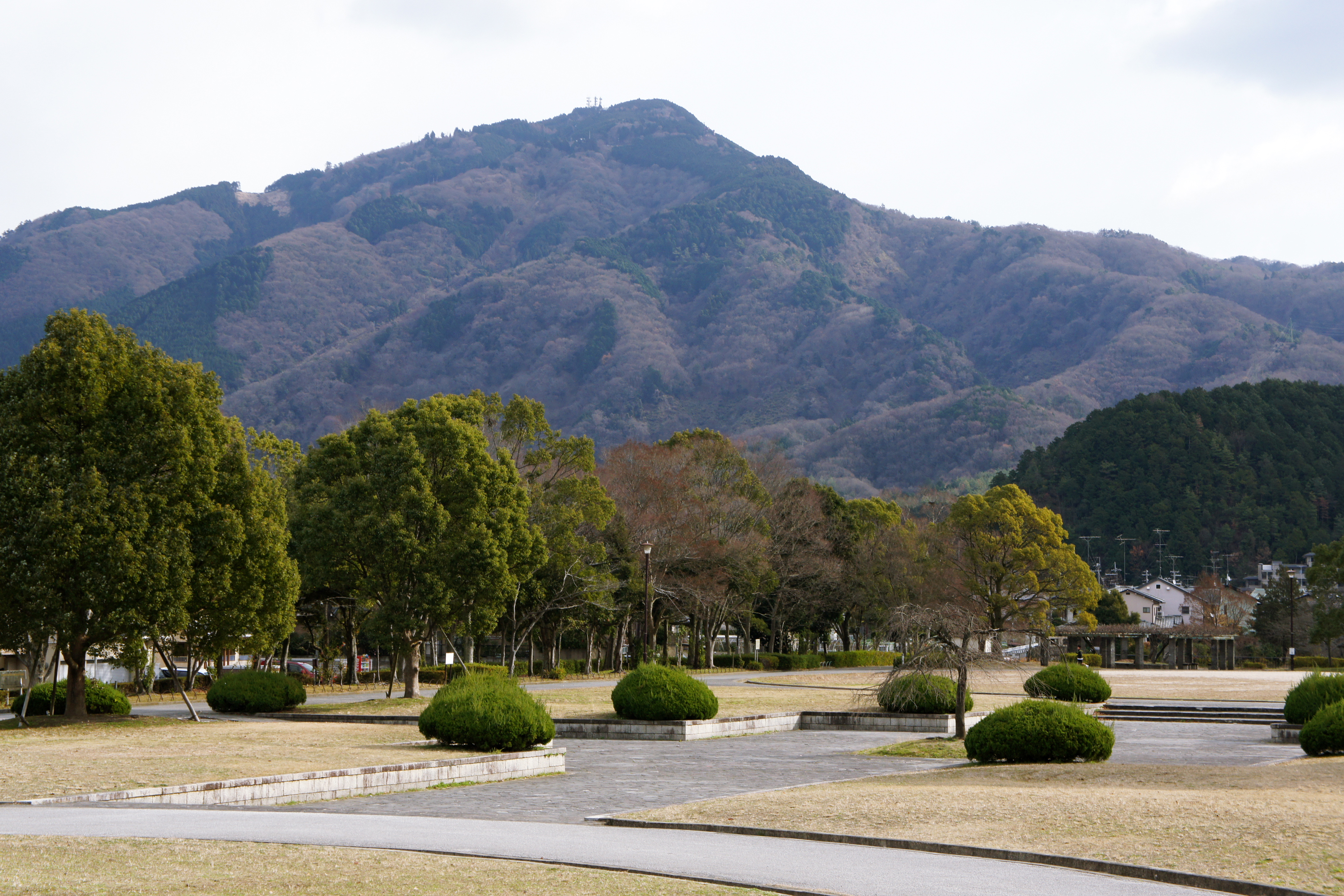 Mount Hiei view from Takaragaike Park in Sakyō-ku, Kyoto, Kyoto Prefecture, Japan.